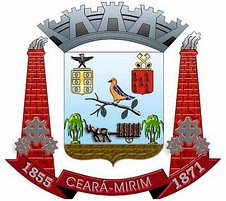 Blazon of Ceará-Mirim city.